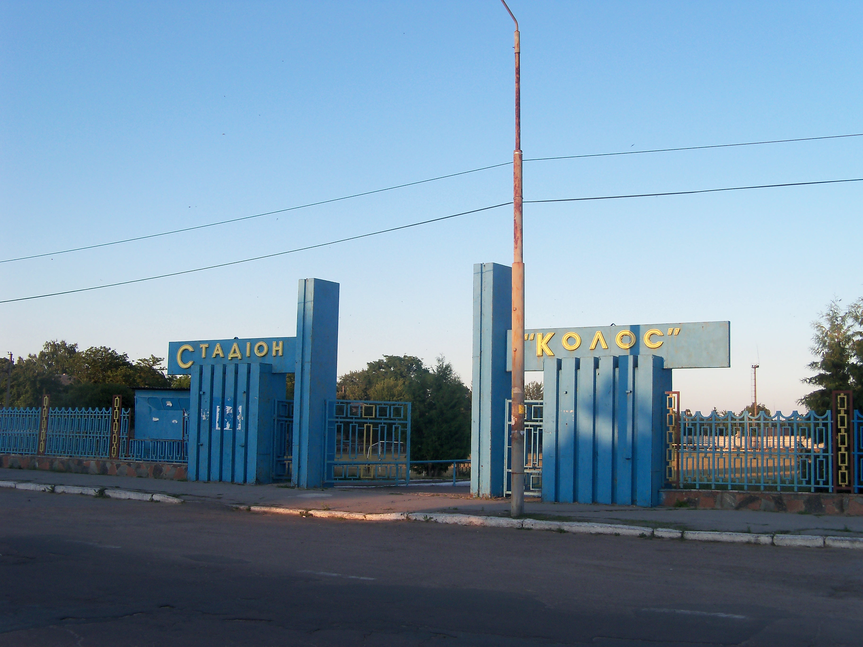 Kolos Stadium in Andrushivka